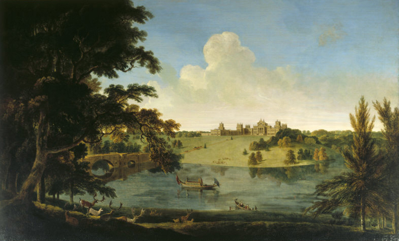 British (English) School; Blenheim Palace, Oxfordshire; National Trust, Chartwell